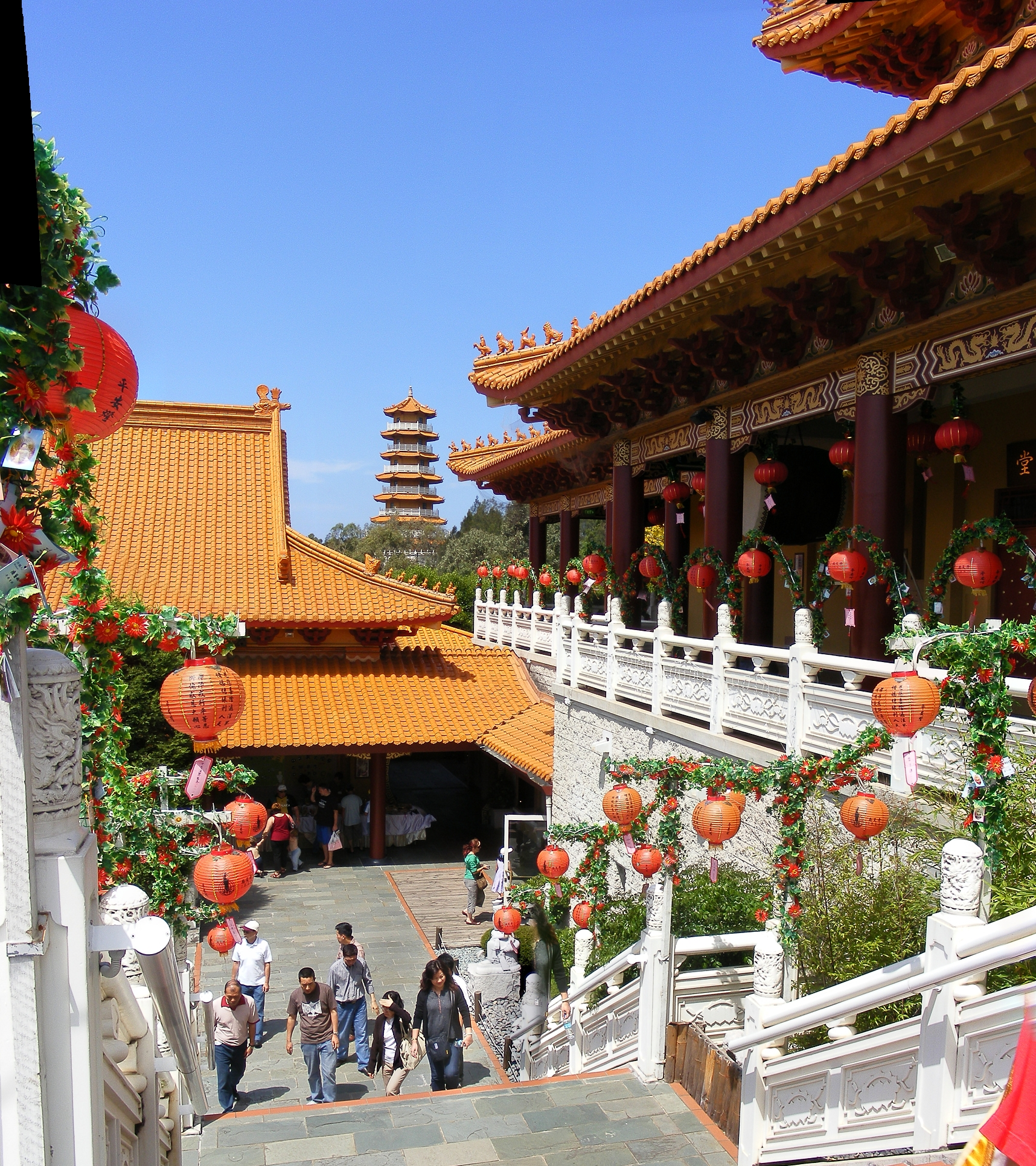 Nan Tien Temple